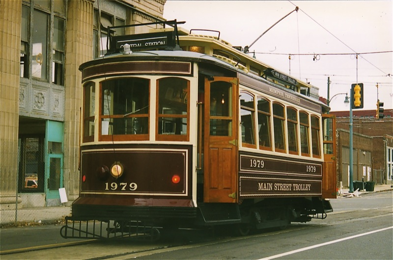 Car 1979 of the Memphis Area Transit Authority's Main Street Trolley system is a vintage-style trolley built by the Gomaco Trolley Company in 1993. This photo shows the car when it was still using a trolley pole, before the pole was replaced (in early 2003) by a pantograph, and in the paint scheme it wore originally.